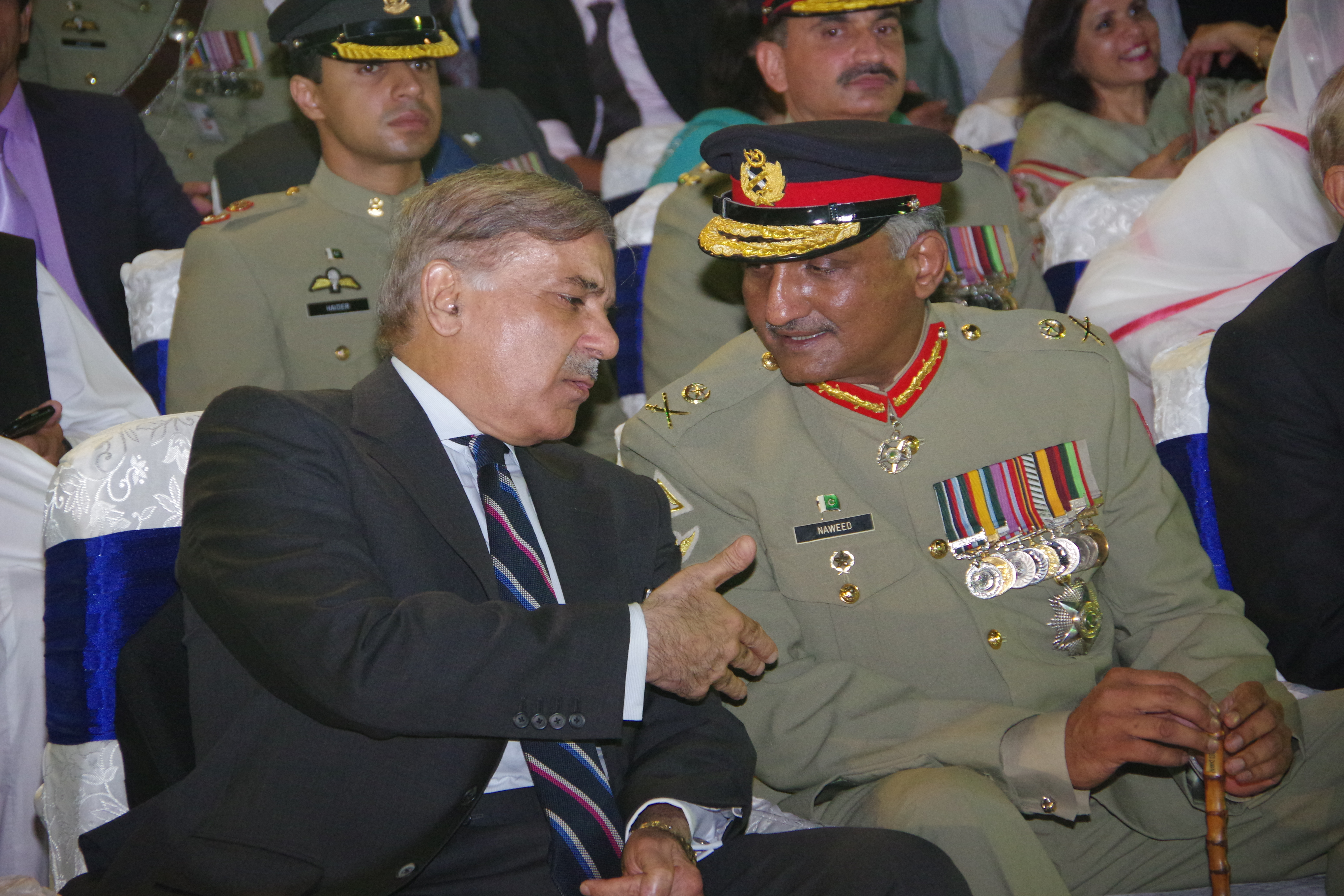 CM Shehbaz with Pak Army